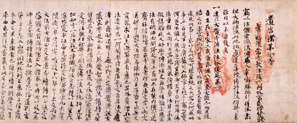 Will with Handprints by Emperor Go-Uda (後宇多天皇宸翰御手印遺告, Go-Uda-tennō shinkan gotein yuigō). Testament of Emperor Go-Uda with handprints. One scroll, ink on paper, 54.5 cm × 788.8 cm (21.5 in × 310.6 in). Located at Daikaku-ji, Kyoto, Japan. The item has been designated as National Treasure of Japan in the category ancient documents.